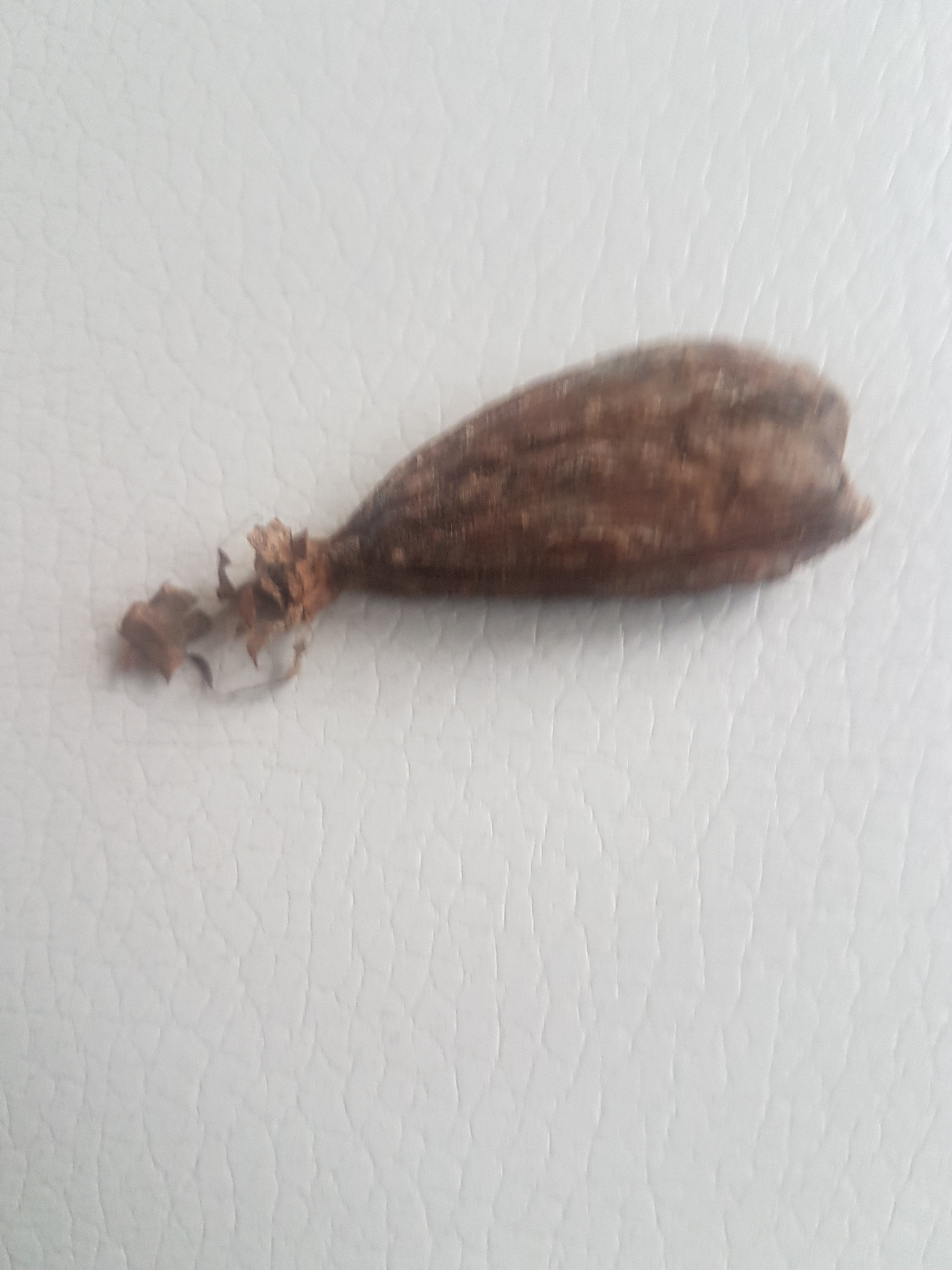 Fruits de Aframomum melegueta. - Mbongo Balim